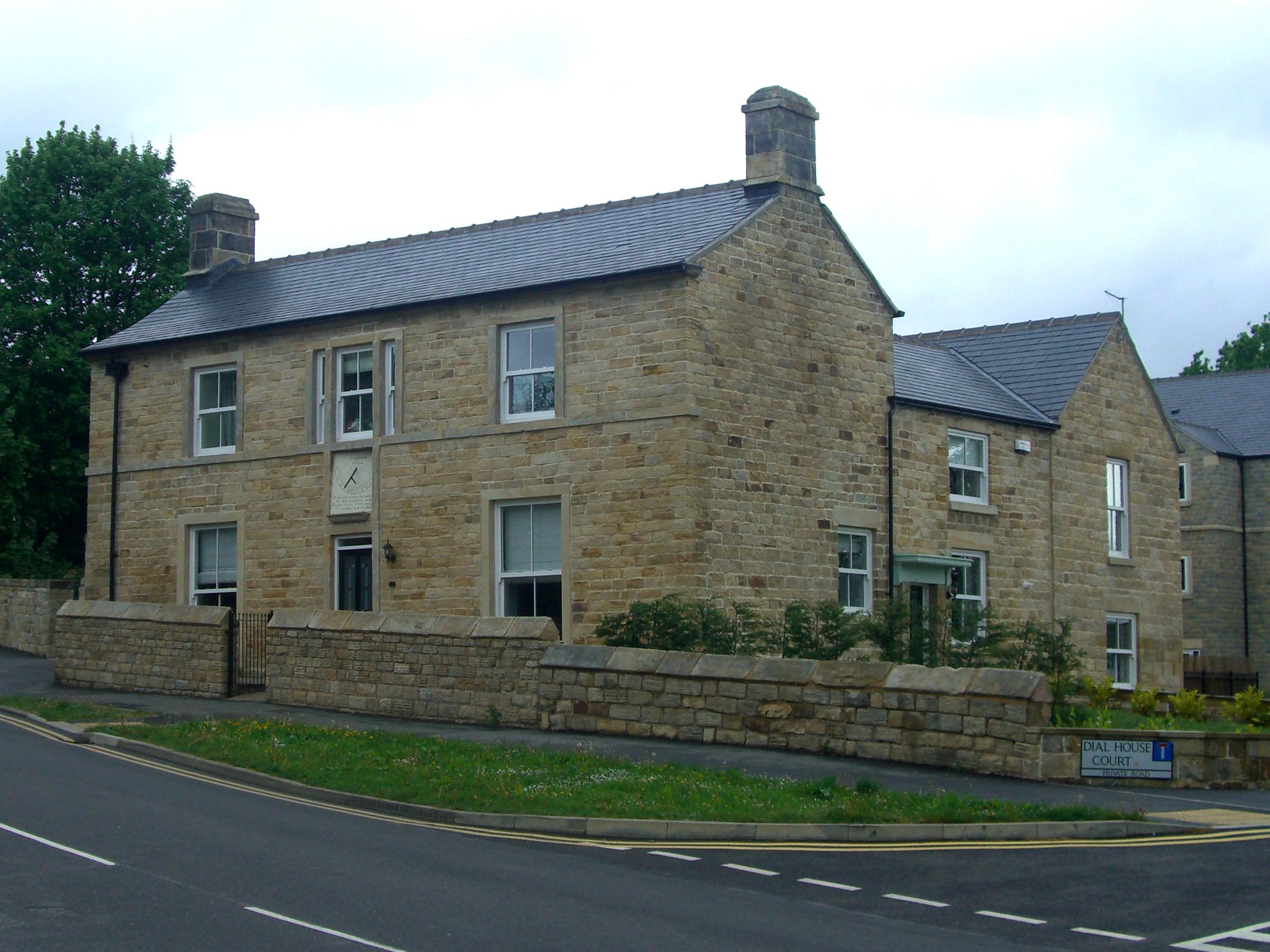 Dial House, Ben Lane, Sheffield, South Yorkshire, seen from the southeast